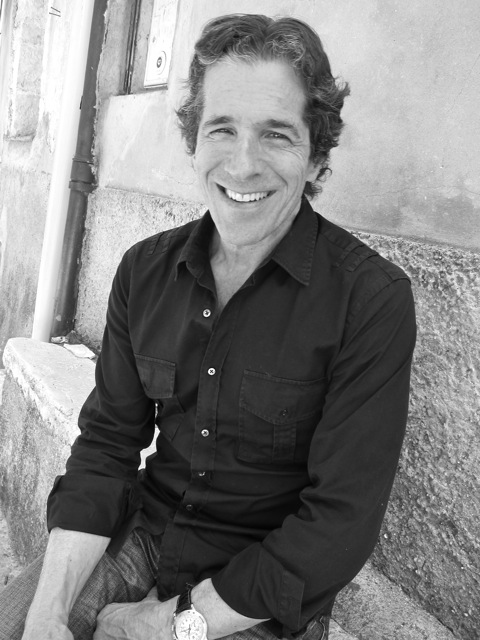 personal photograph of Peter Morton